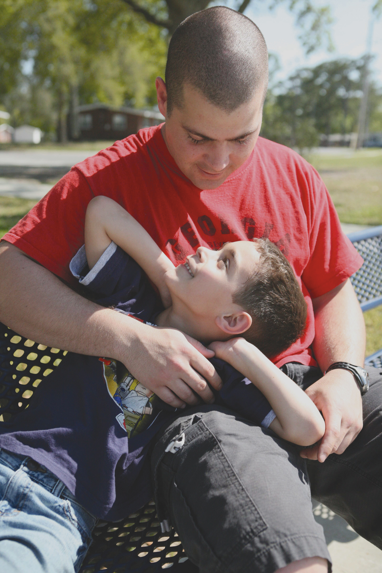 Sgt. Christopher Bullington, a calibration Marine with Marine Aviation Logistics Squadron 31, looks at his 6-year-old son, Caleb, at a park aboard Laurel Bay, April 5. Bullington has been a single military parent for more than two years.